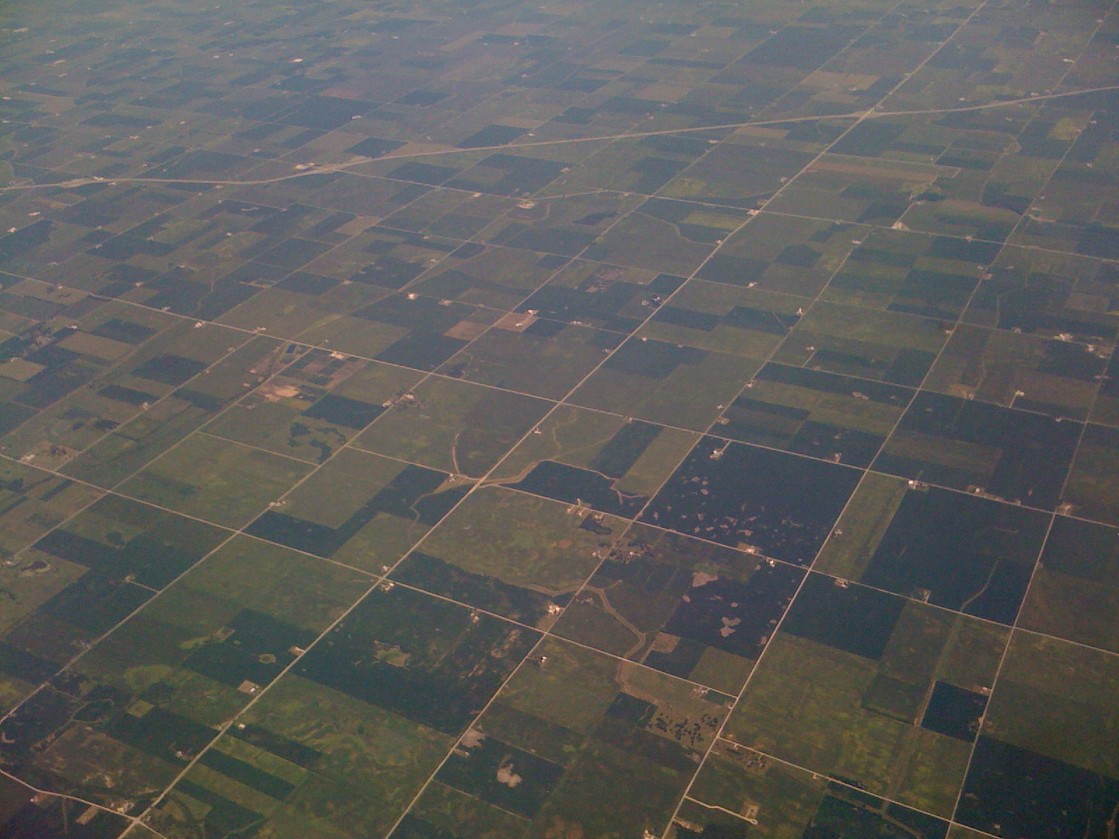 View from an airplane of central Indiana farmland. The view is northeast, with southeastern Benton County in the foreground and southwestern White County beyond. Indiana State Road 18 crosses the photo from bottom left to top right; Interstate 65 crosses near the top.